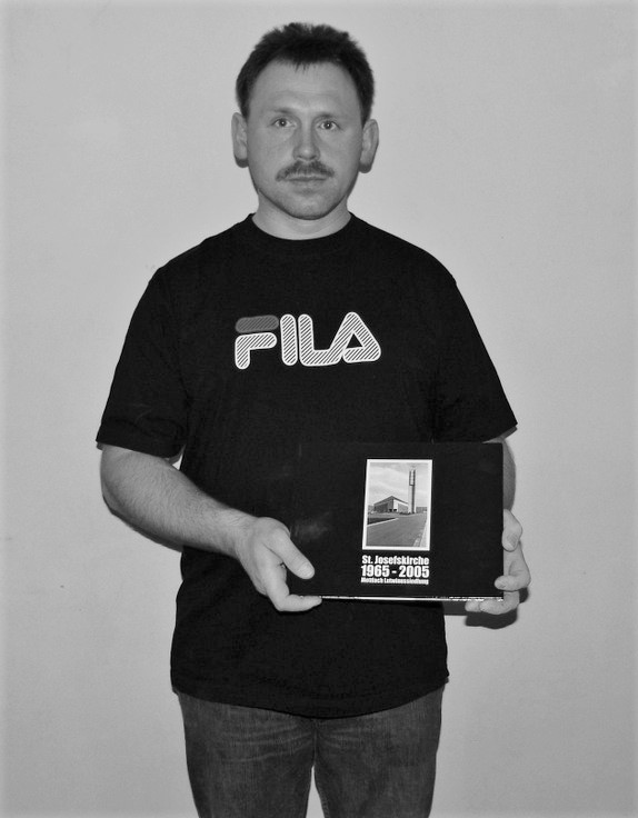 Thomas Steuer with his book about the former church of St. Josef in Mettlach-Keuchingen